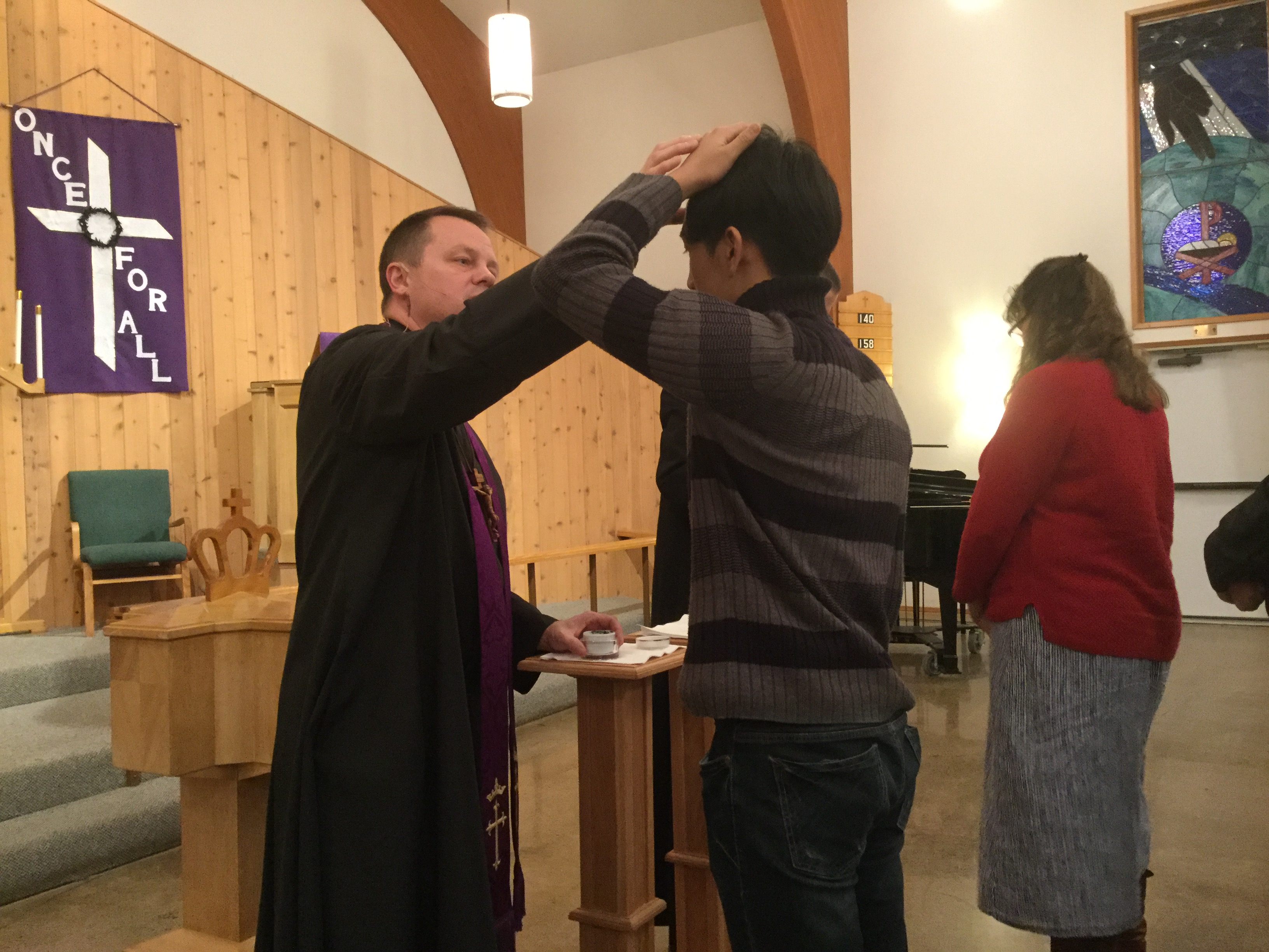 The image depicts Pastor Tony Pittenger distributing ashes to a Lutheran communicant in Port Orchard, Washington during the Divine Service. This picture was clicked on March 1, 2017.